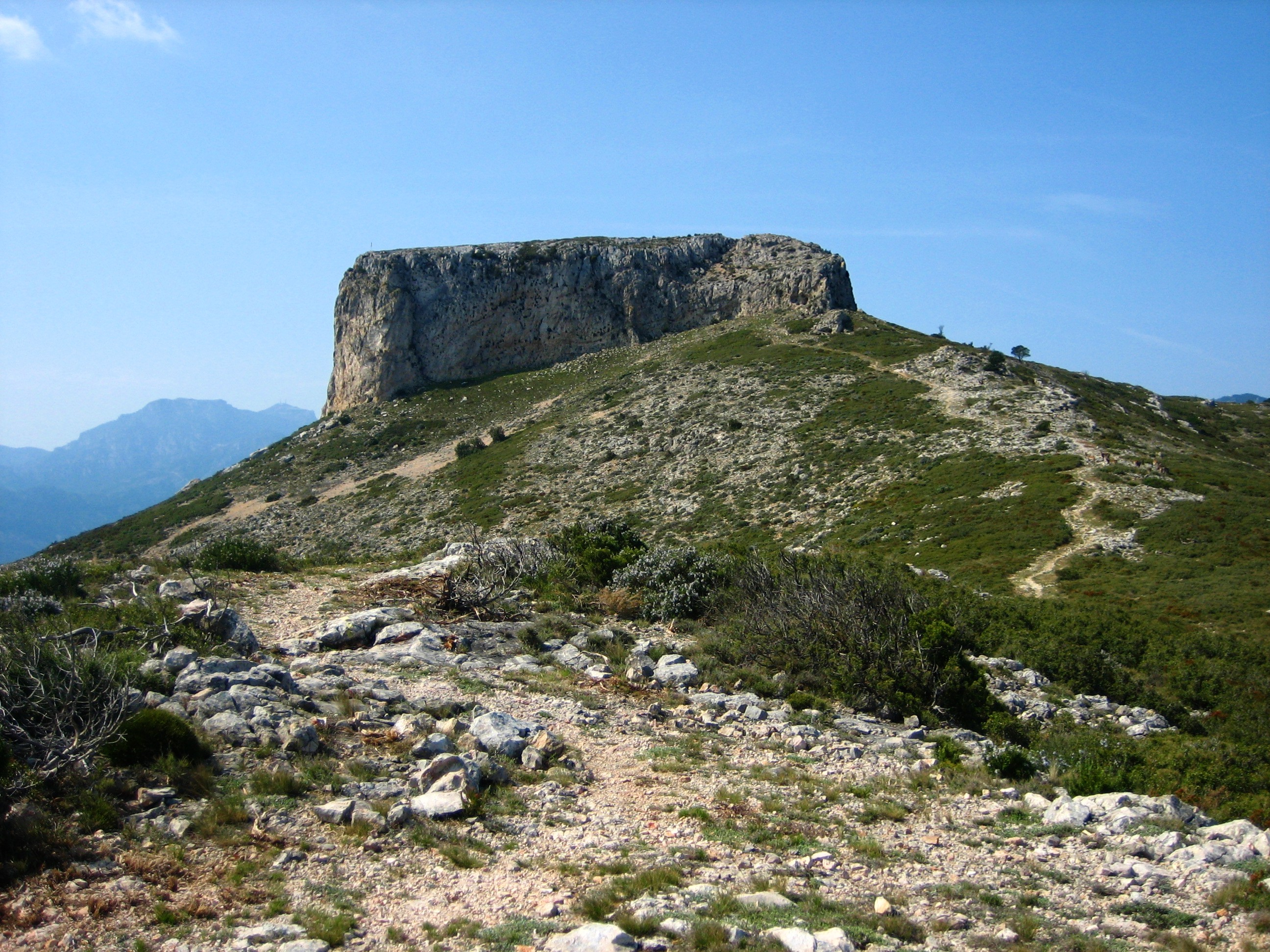 La Moleta (807 m), East face, Alfara de Carles, Ports de Tortosa Beseit, Tarragona, Catalonia, Spain